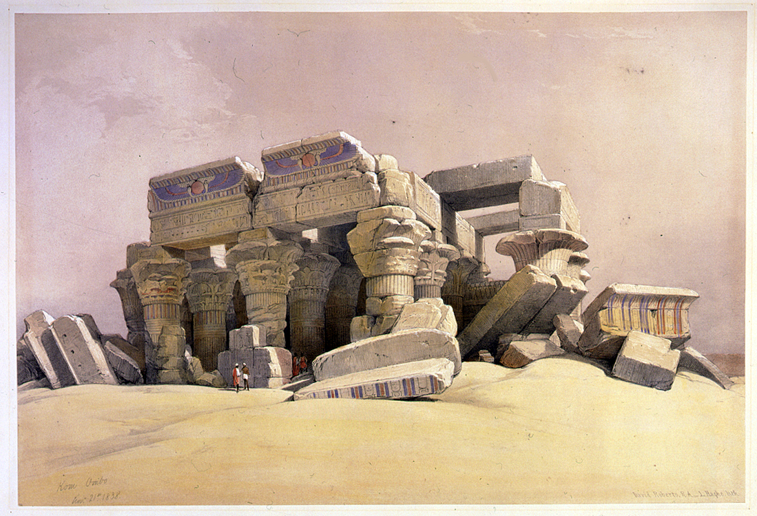 Picture of a print from David Roberts' Egypt & Nubia, issued between 1845 and 1849.